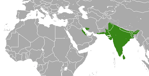 Indian Gray Mongoose (Herpestes edwardsii) range